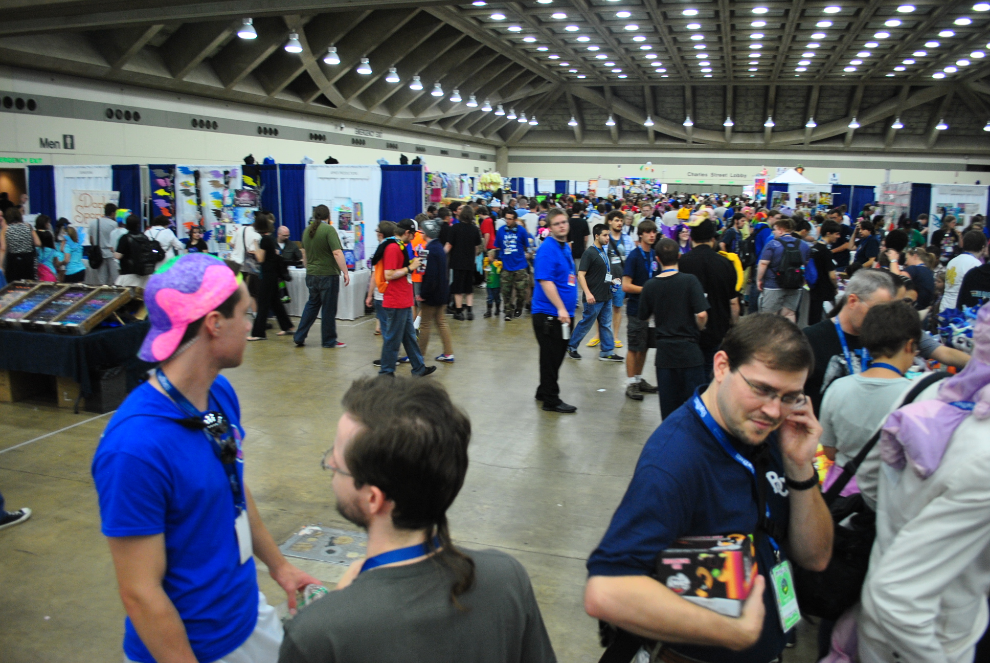 The vendor hall at the 2014 BronyCon convention, August 1-3, 2014, Baltimore Convention Center